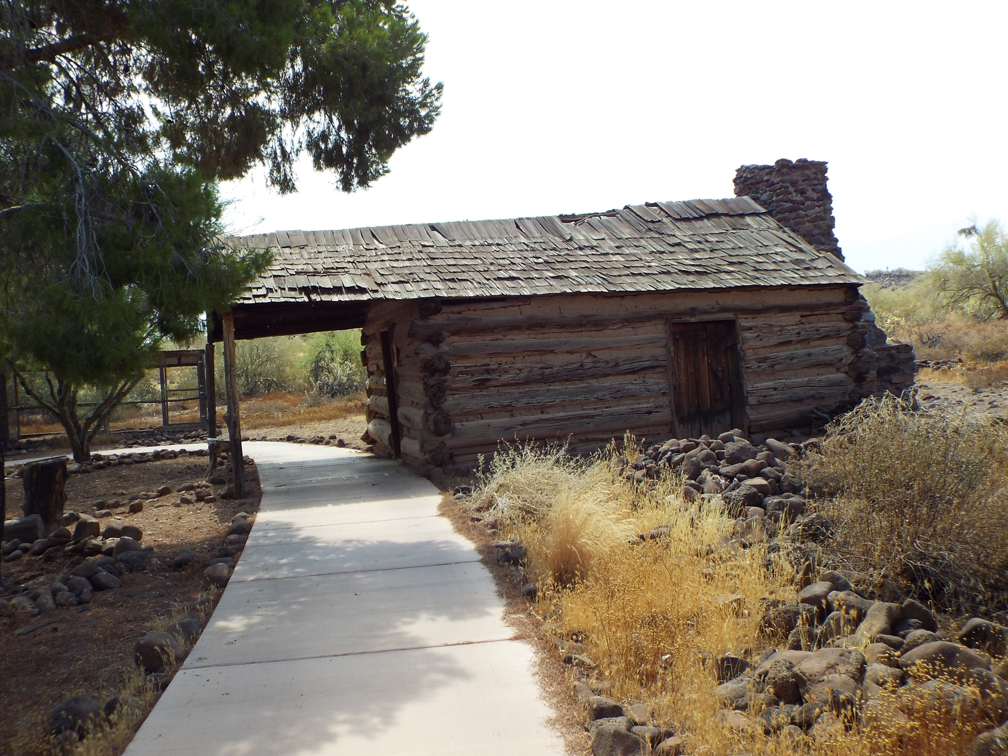 The Ashurst Cabin was built in 1878 near Prescott. This was the boyhood home of Senator Henry Fountain Ashurst, the first Arizona senator following statehood. Ashurst served in the senate from 1912 to 1942. The family cooked their food in the fireplace, however during the summer they did their cooking outside over a campfire. The family lived in the cabin until 1893. The cabin was donated to the Pioneer Living History Museum and is now located at 3901 W. Pioneer Road in Phoenix, Arizona.